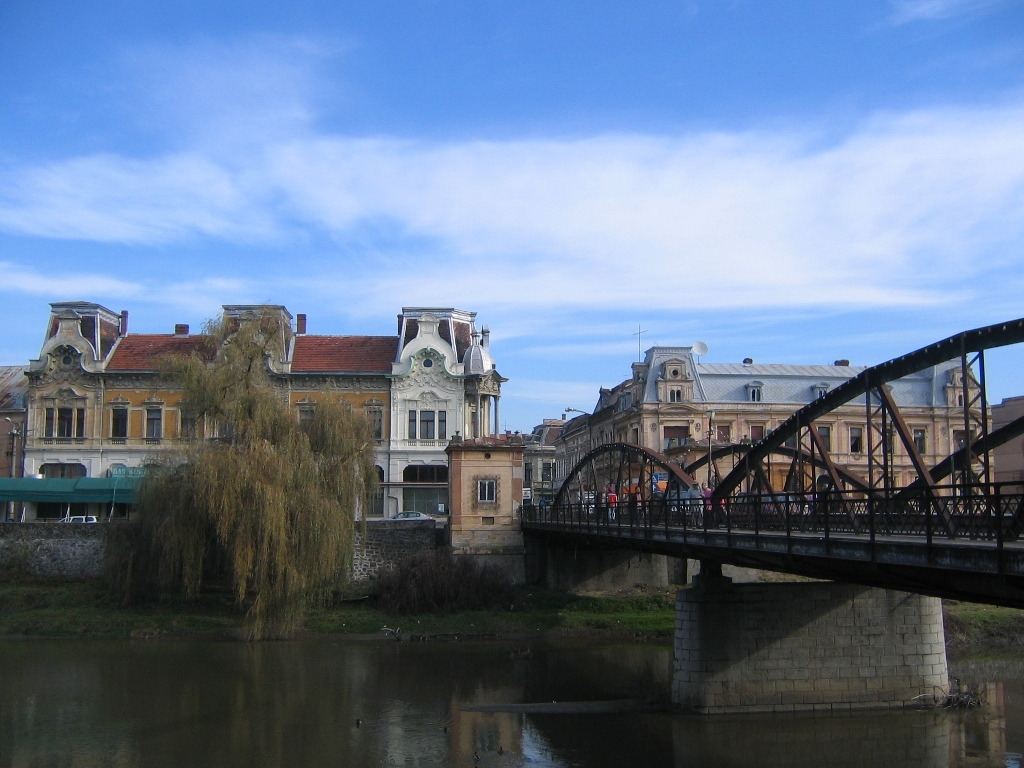 The Steel Bridge, Lugoj, Romania. The bridge turned 100 years old in 2006